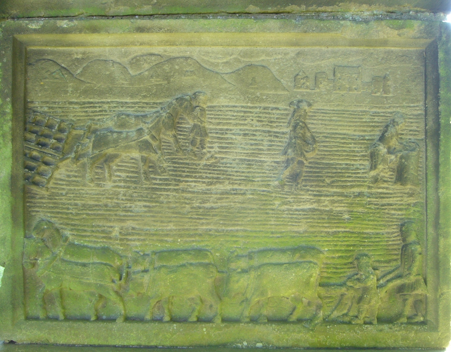 Straiton tombstone detail A rare depiction of 18th-century farming showing a furrowed field with a horse-drawn harrow, a farmer broadcasting seed, a figure with an open sack of grain, and a team of horse and oxen pulling an Old Scots Plough. The background possibly represents the Braid Hills at the foot of which stand farm buildings.